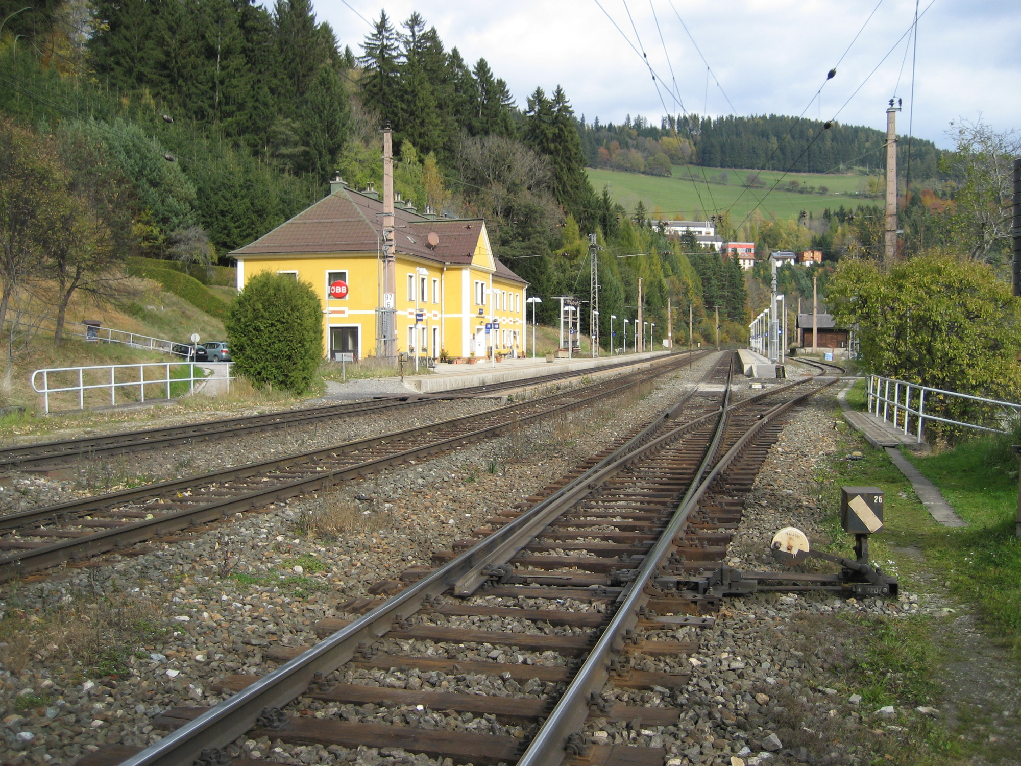 Breitenstein train station in Lower Austria